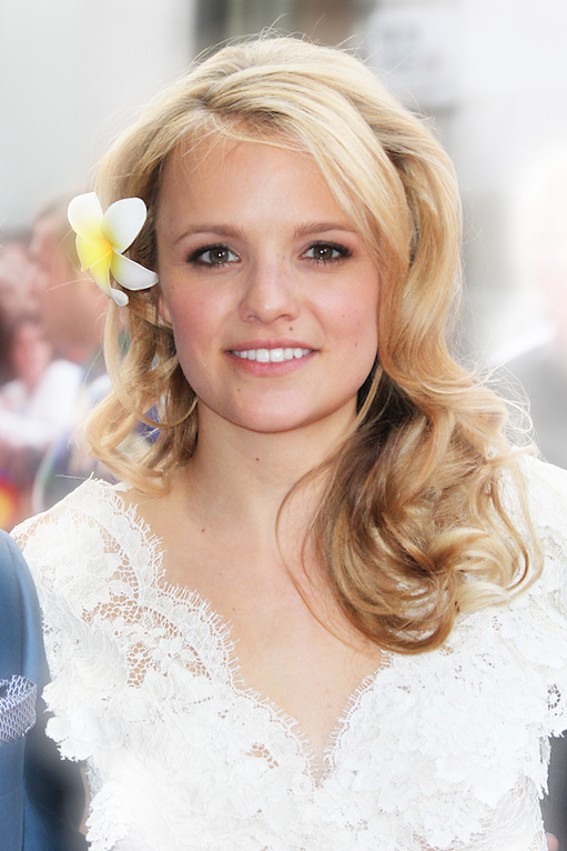 English actress Laura Aikman at the Bula Quo! UK film premiere, Odeon West End cinema, Leicester Square, London, UK on 1 July 2013.